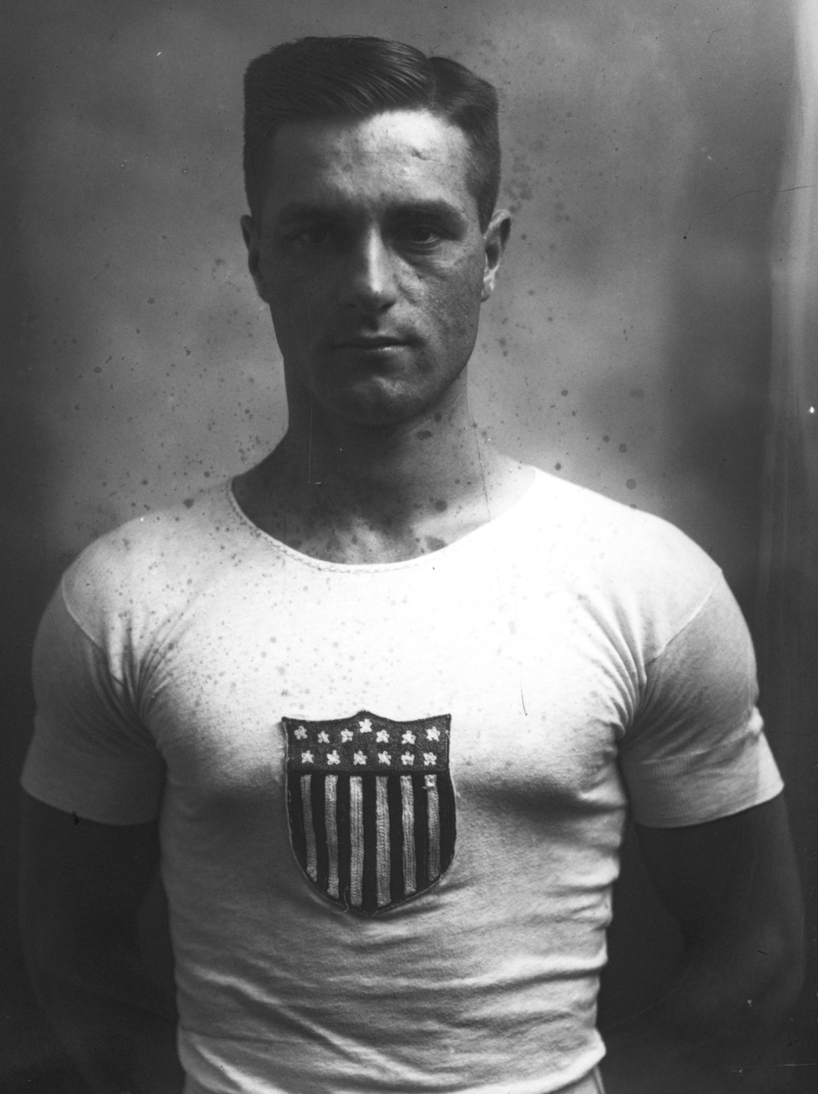 Gordon Dukes